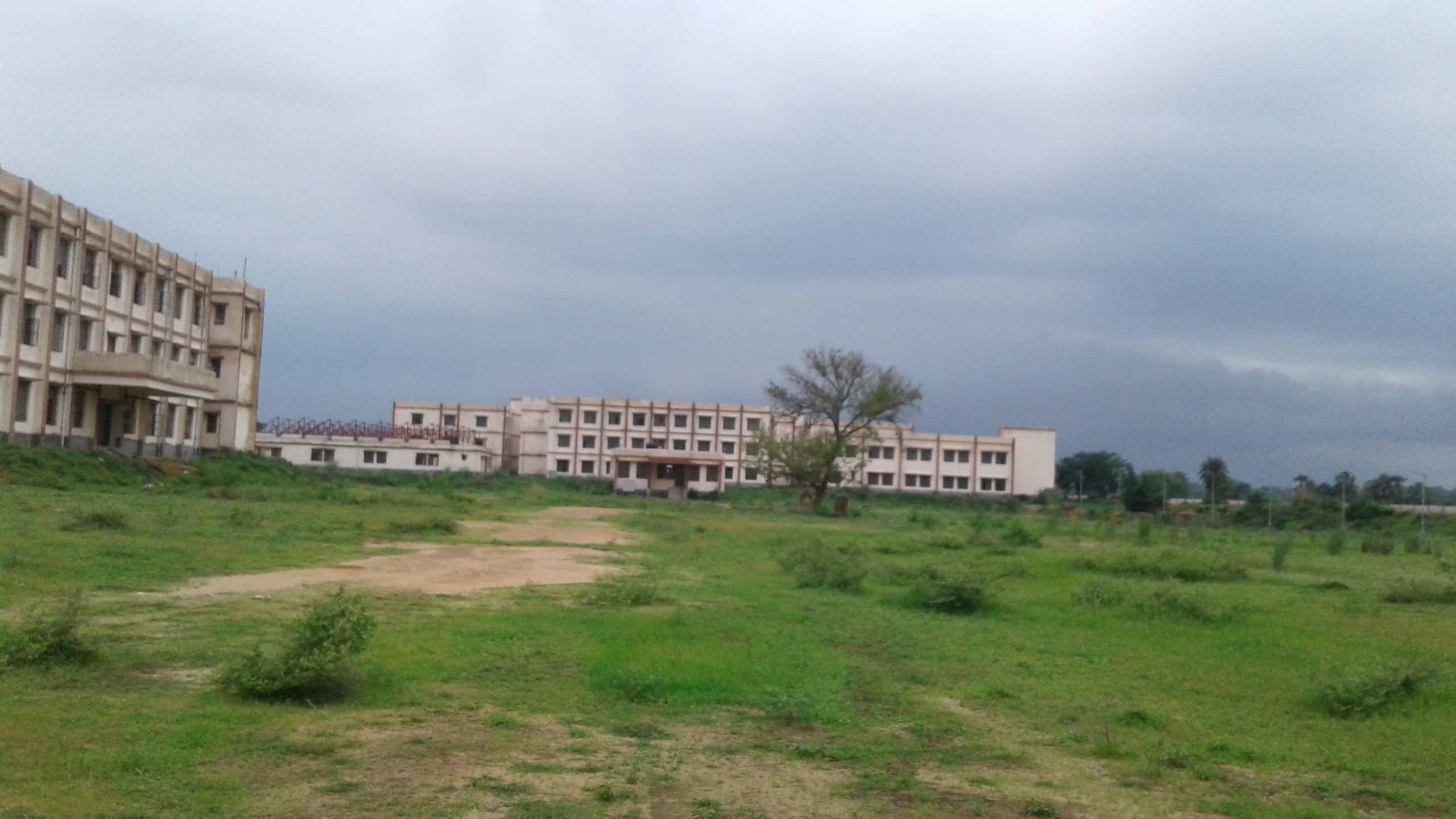 shershah engineering